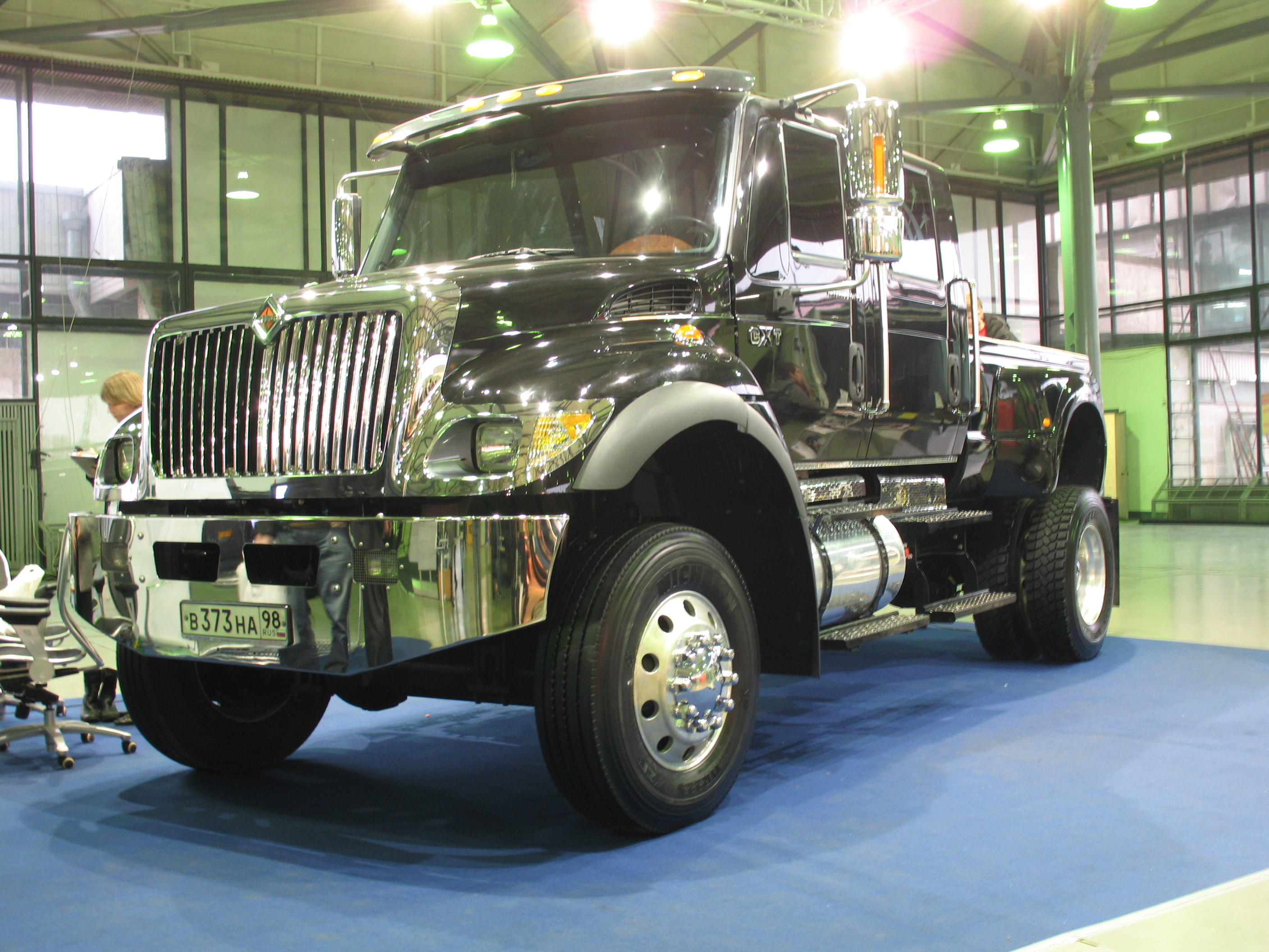 International CXT